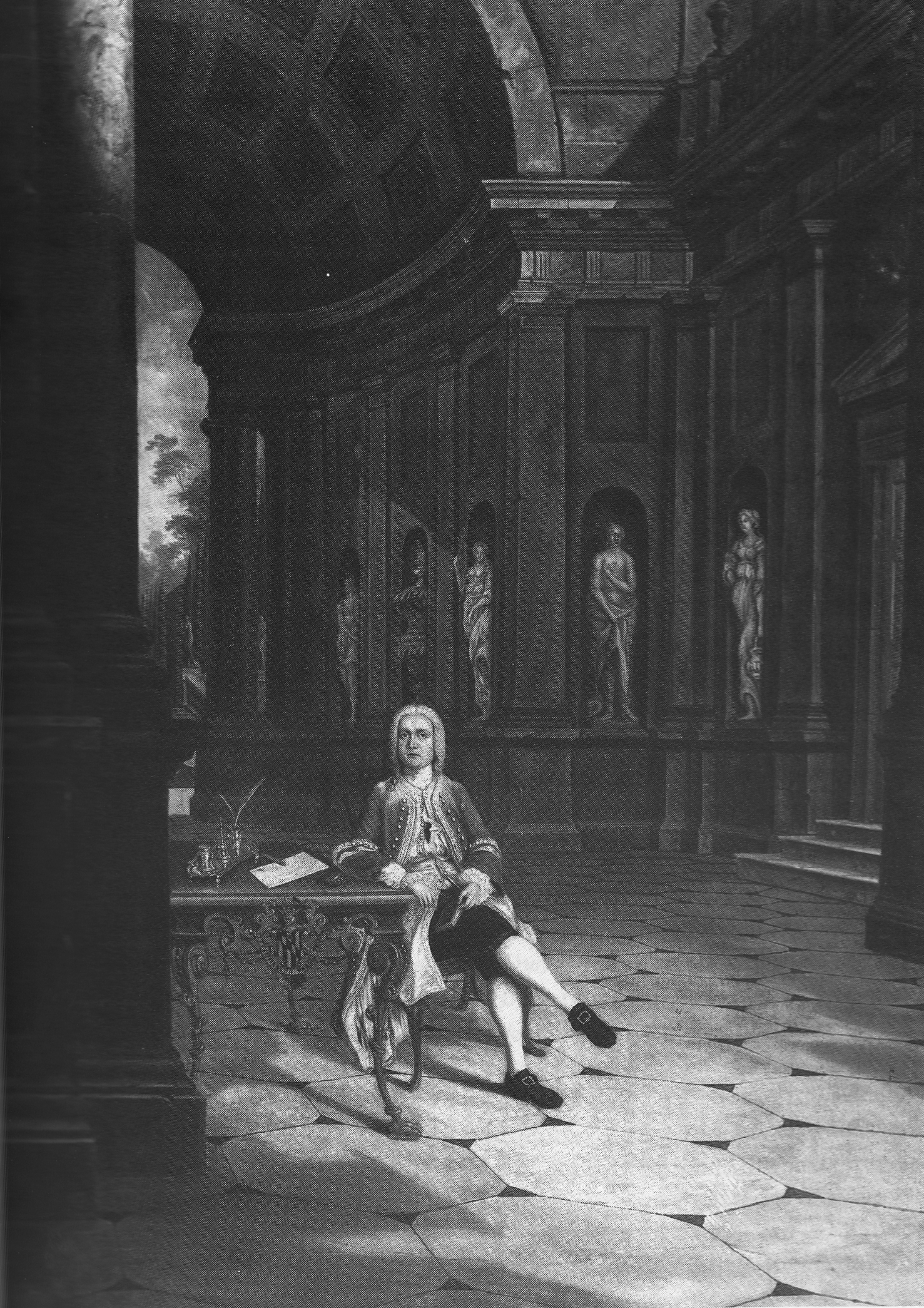 Portrait of benedict Leonard calvert at the Calvert home of Wodecote park, Surrey, c1726. Painter long dead; public domain